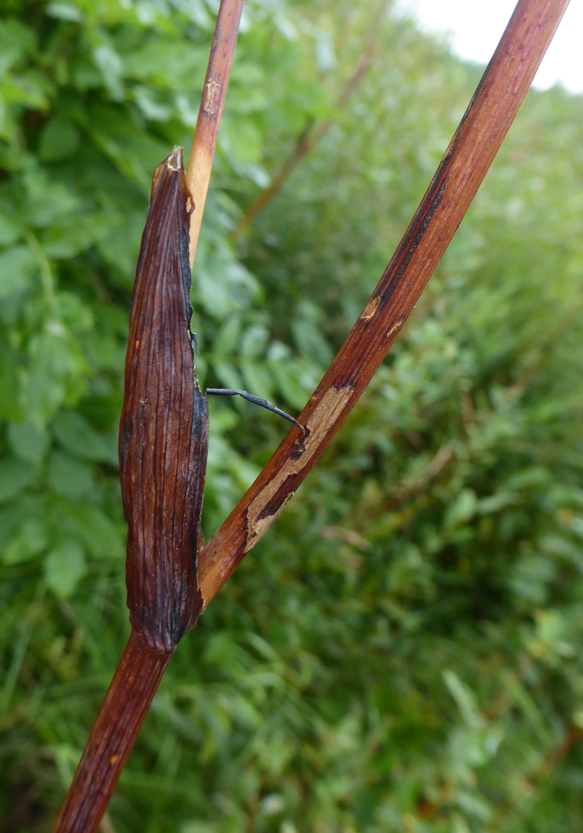 Conioselinum tatarcium leaf sheath